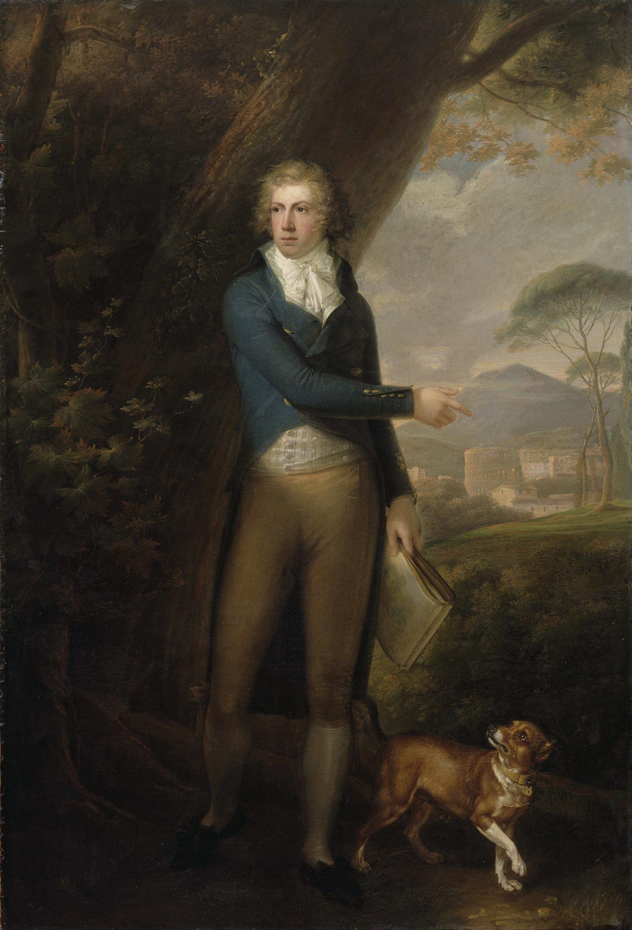 Portrait of Sir George Wright, 2nd Baronet (c.1770–1812).